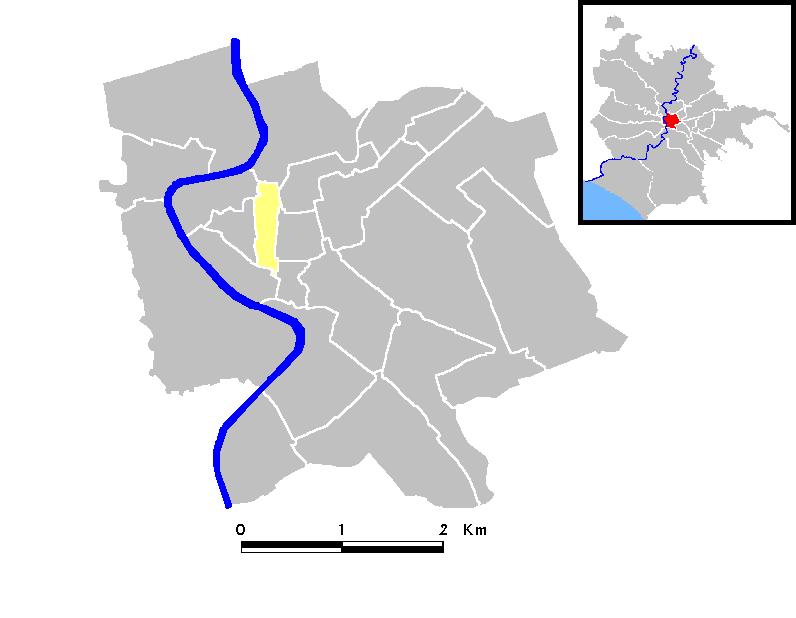 Locator maps of Rome (rioni)